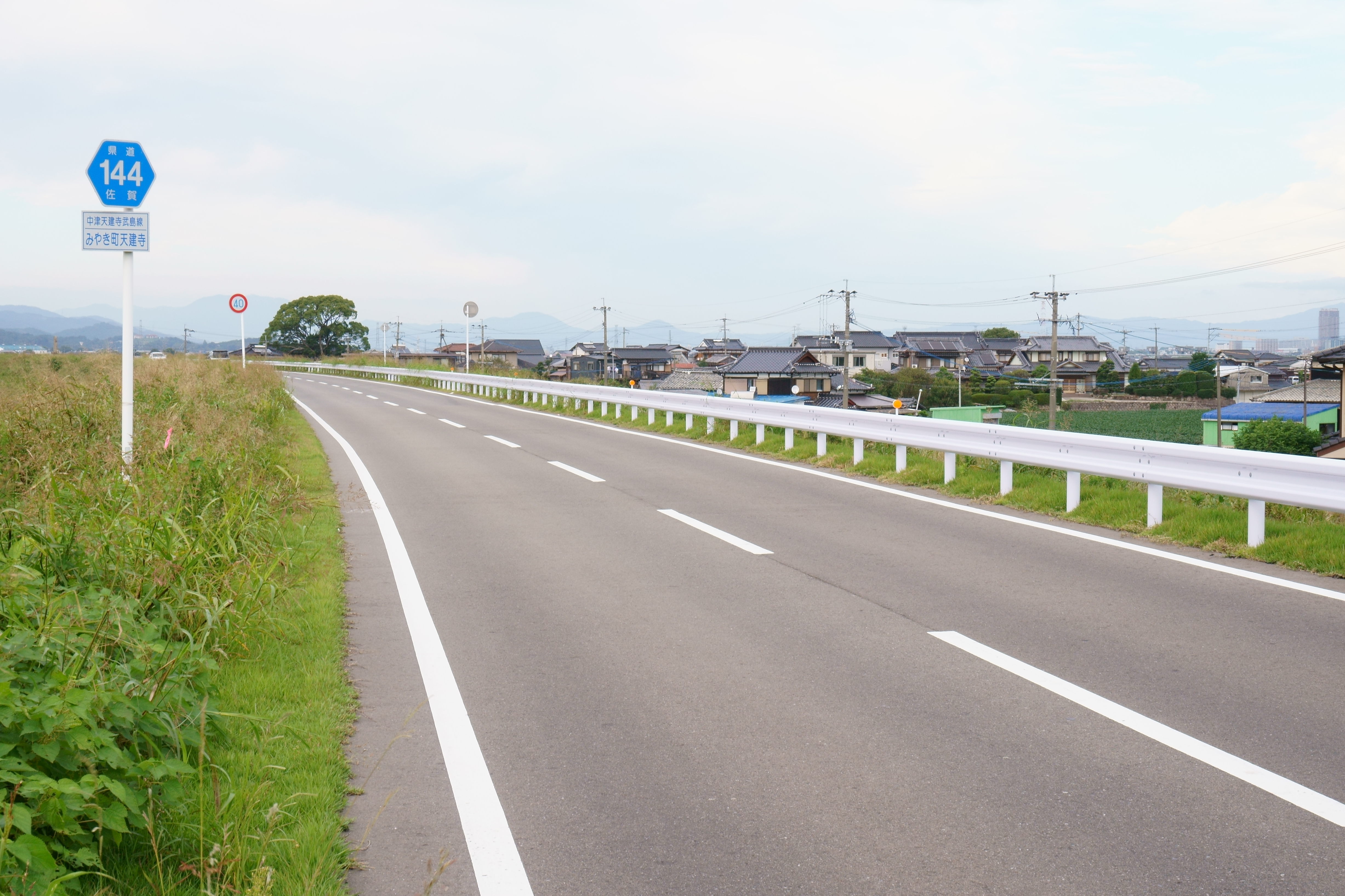 Fukuoka Prefectural and Saga Prefectural Road No.144 in Doihoka, Tenkenji, Miyaki town, Saga prefecture.